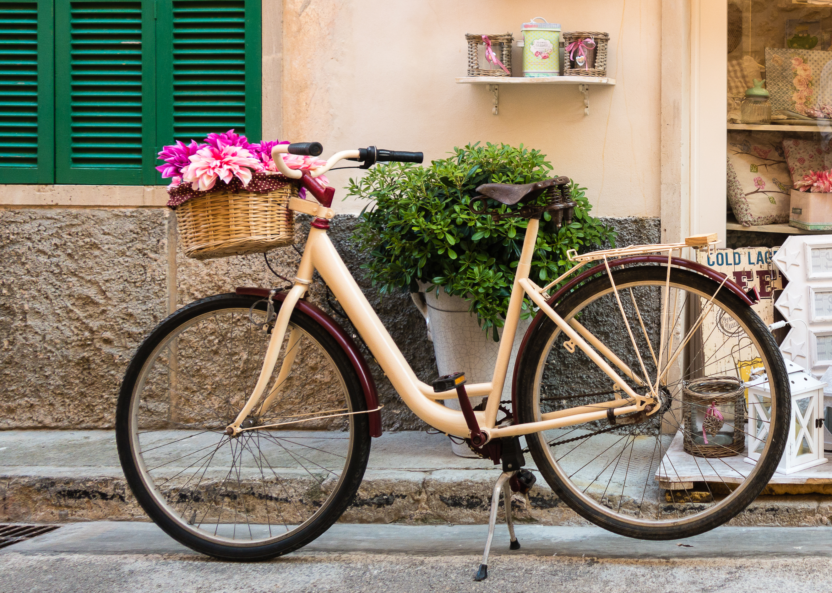 Women's bicycle with flower baske